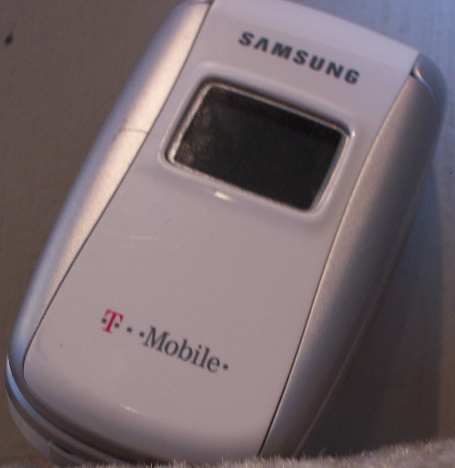 Self made picture of a Samsung x495 cell phone